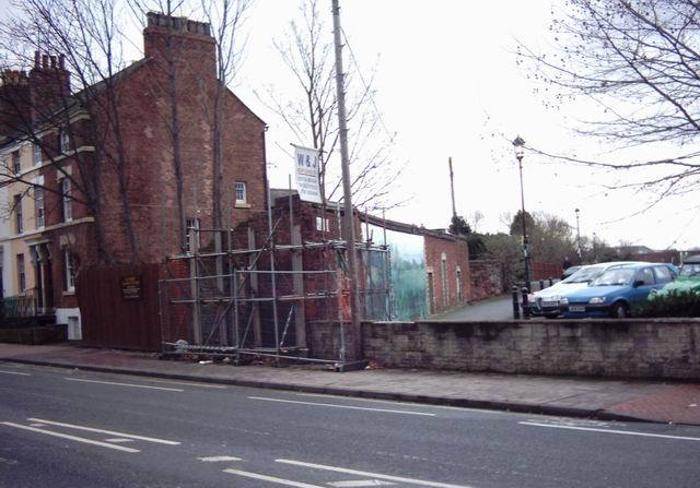 The site of the former Shrewsbury Abbey railway station, England.